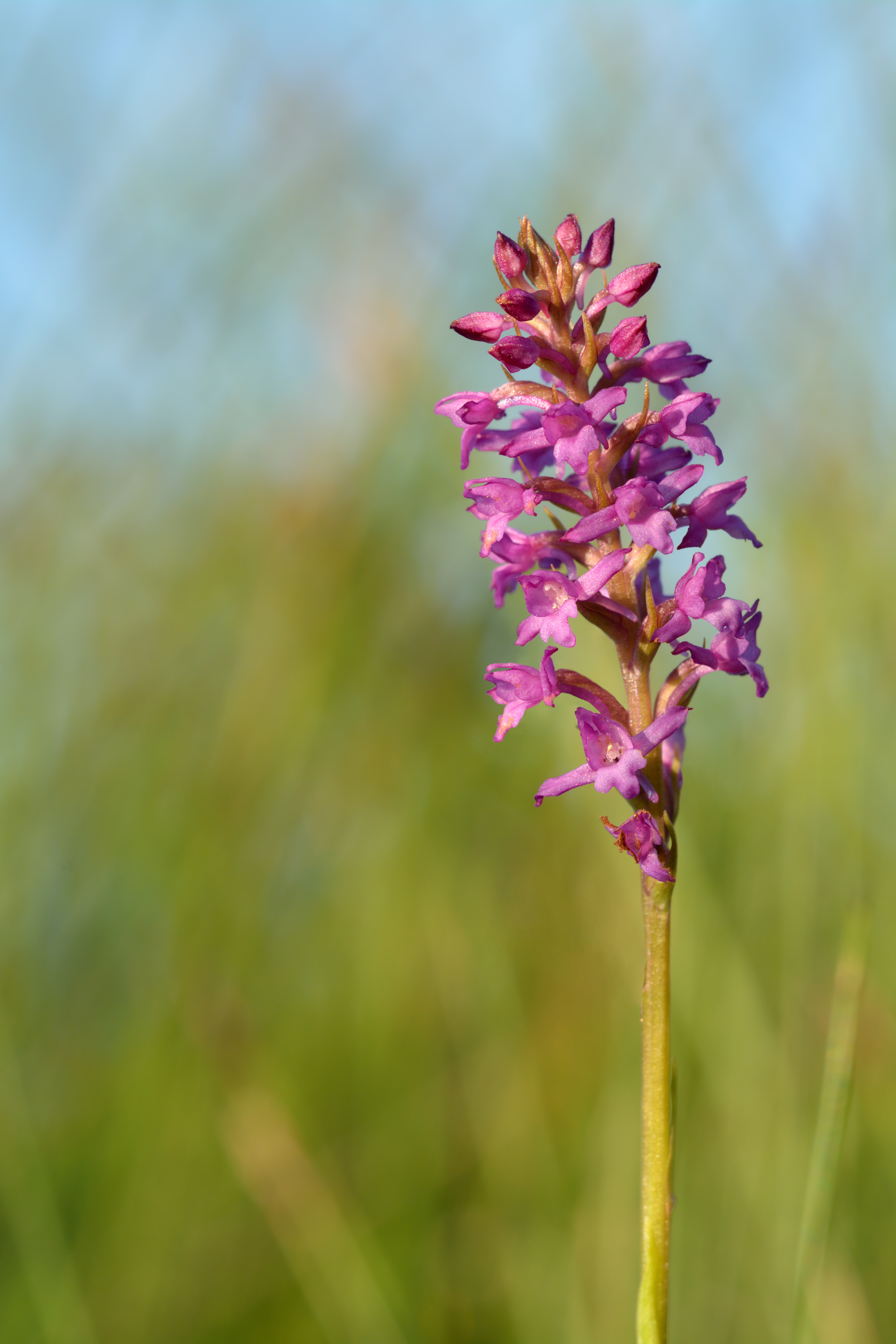 Short spurred fragrant orchid